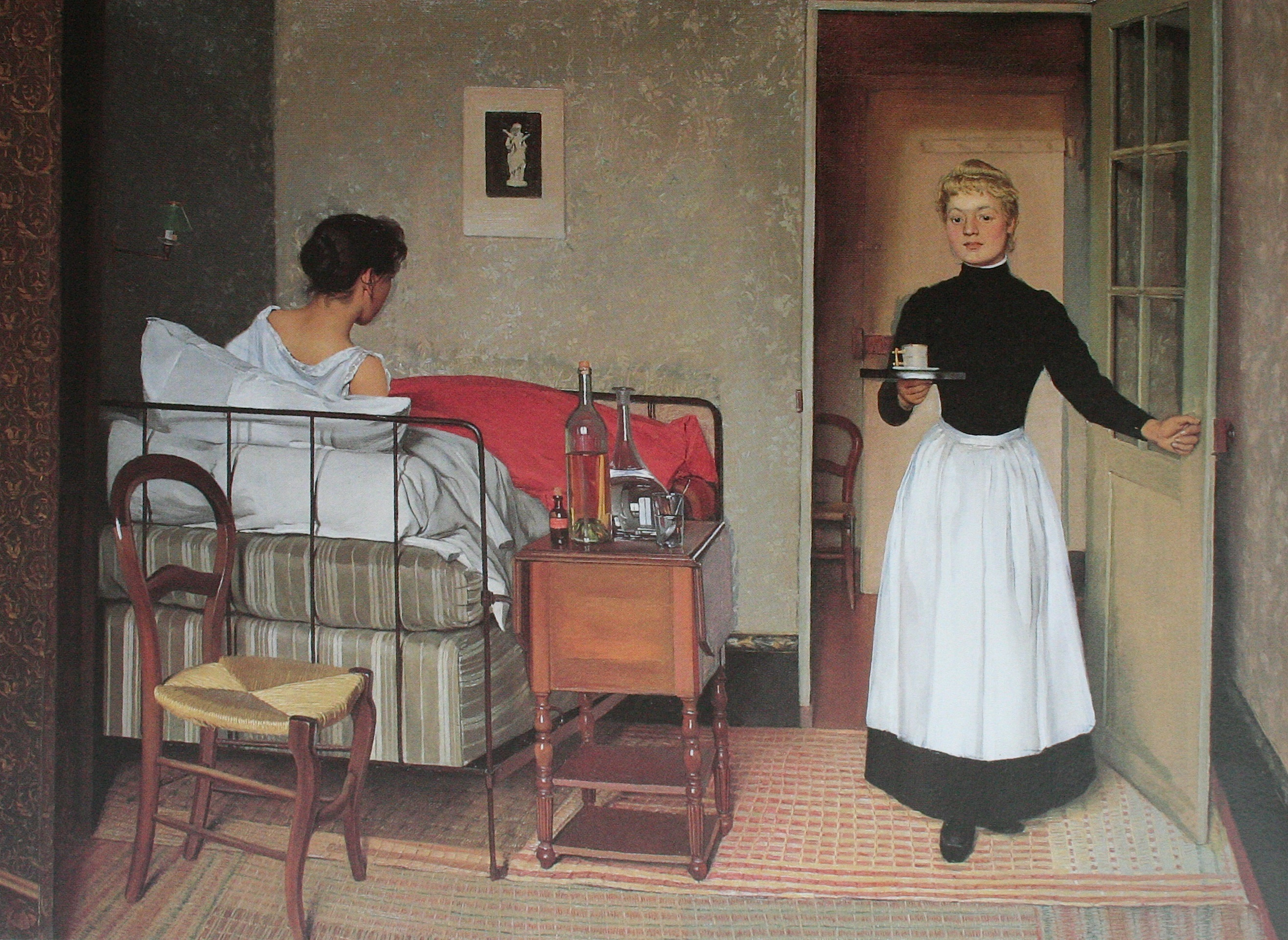 La Malade (The Patient): Hélène Chatenay